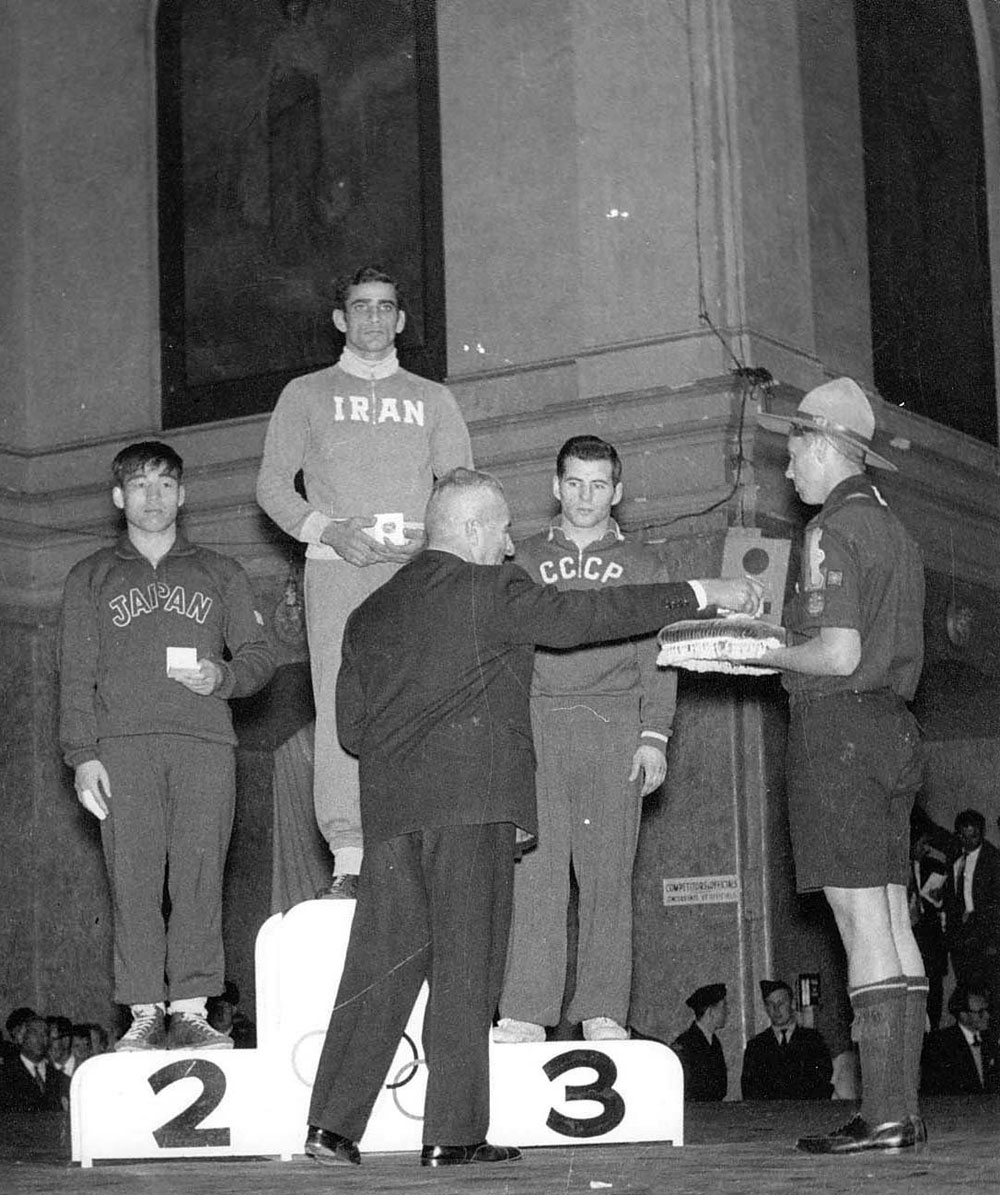 Freestyle Wrestling at the 1956 Summer Olympics 67 kg podium